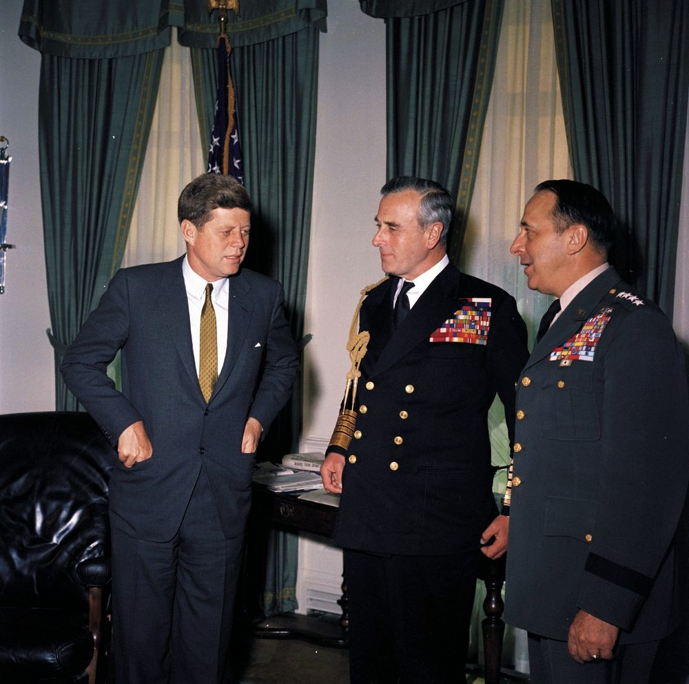 President John F. Kennedy meets with Chief of the Defense Staff of the British Armed Forces Lord Louis Mountbatten, First Earl Mountbatten of Burma (center) and Chairman of the Joint Chiefs of Staff General Lyman Lemnitzer (right) in the Oval Office, White House, Washington, D.C.